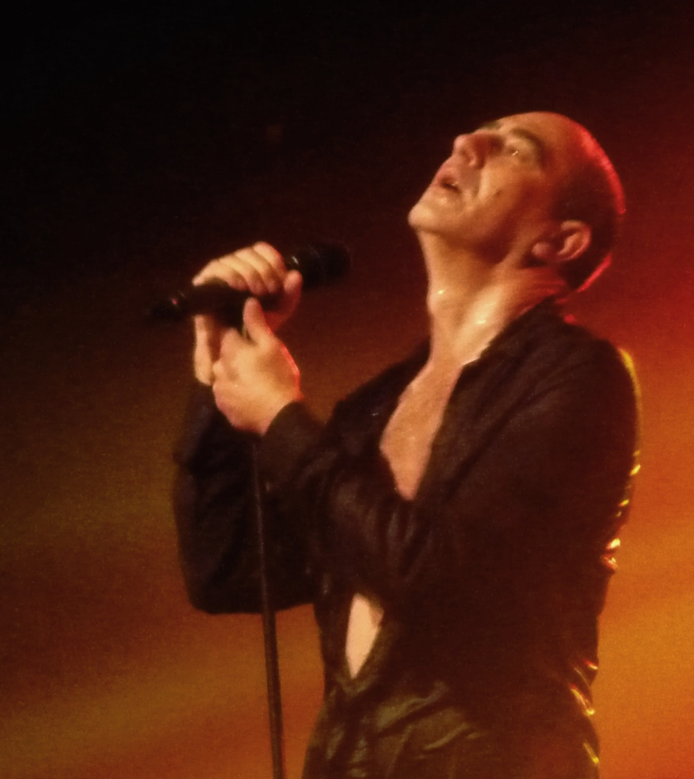 Gabi Delgado-López (singer of the German band 'DAF') December 1, 2012 - Live with DAF in Mannheim/Germany (at 'Alte Seilerei')